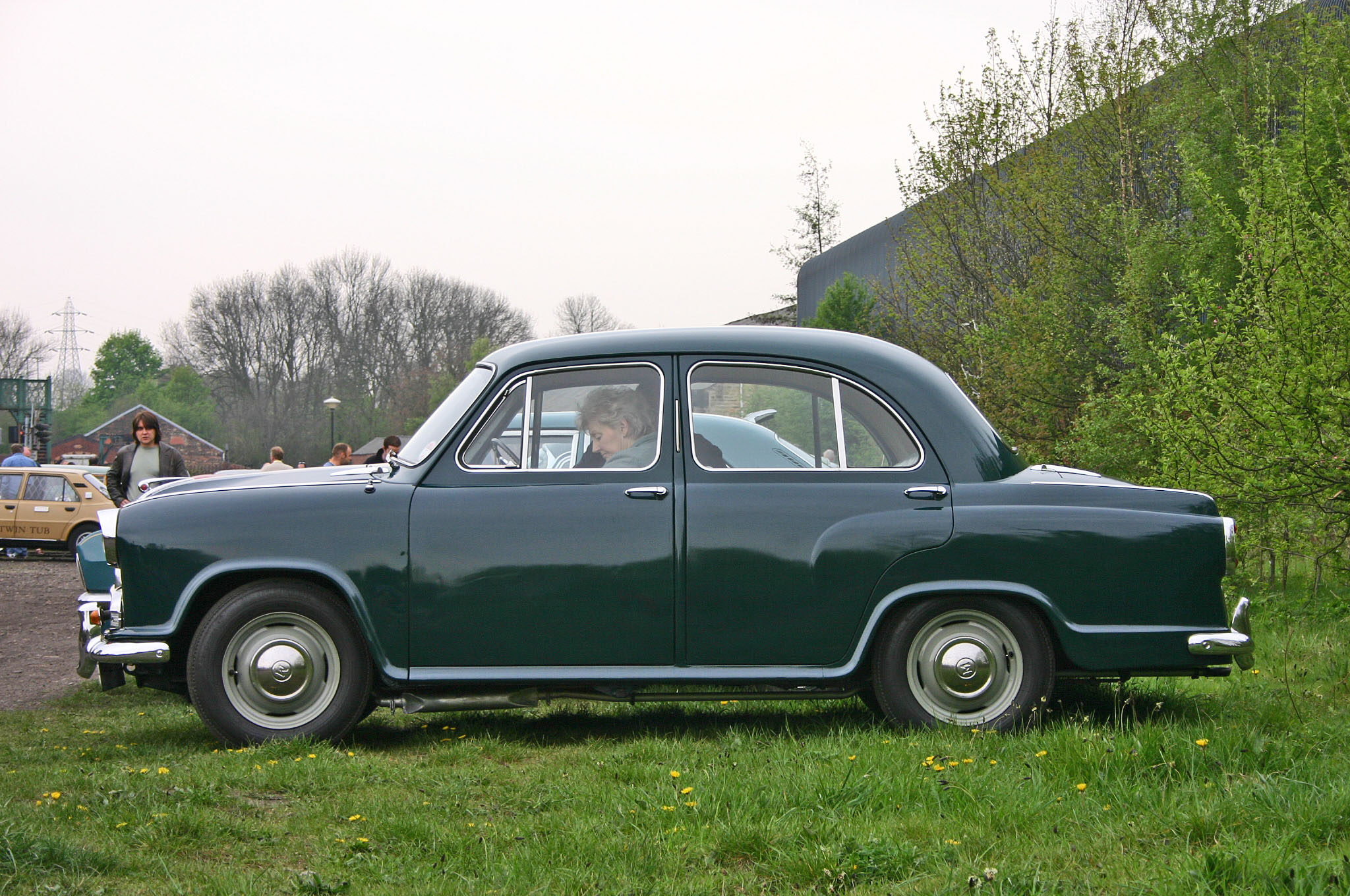 Morris Oxford Series III in side view (DVLA) first registered 26 August 1957, 1489cc